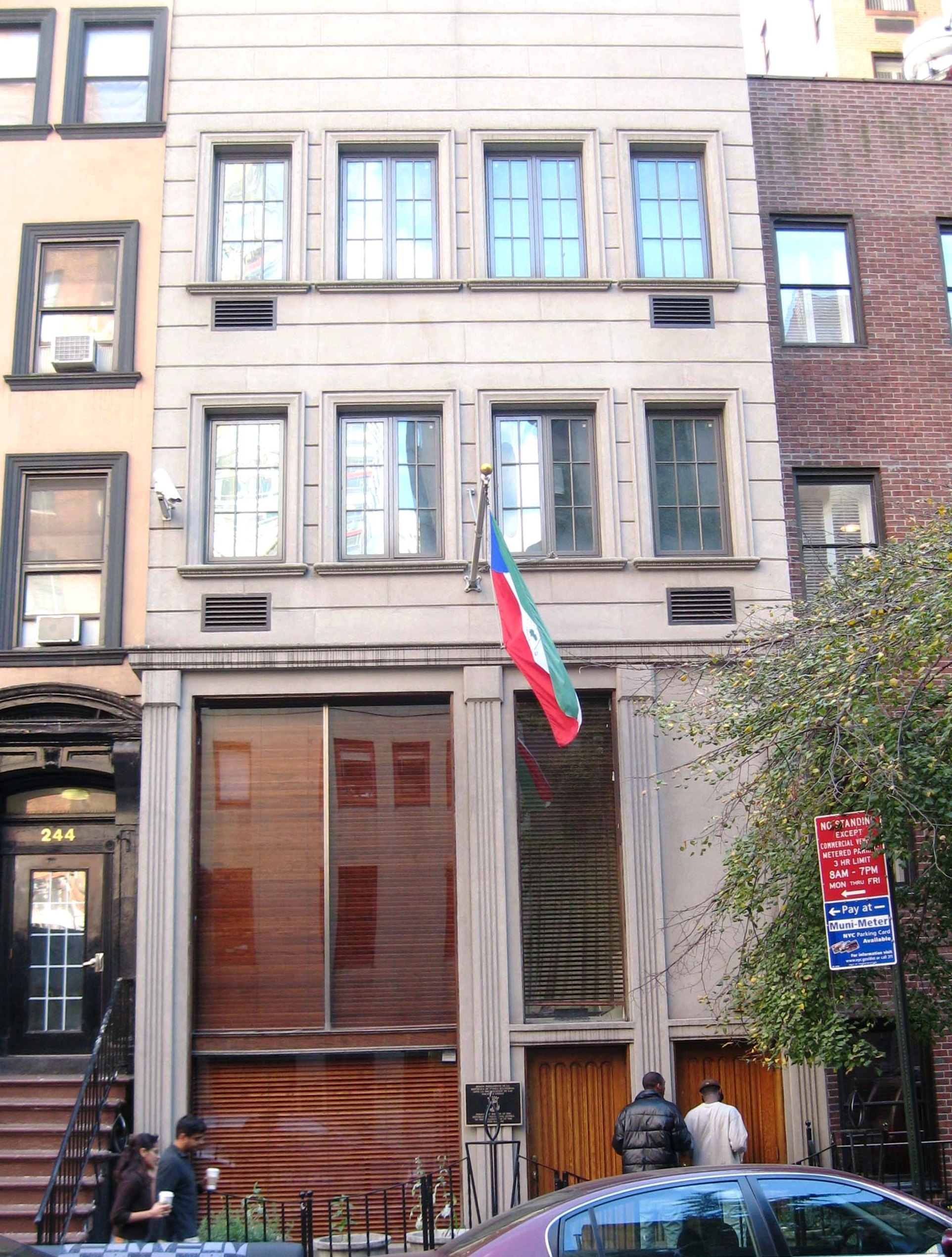 Looking south across East en:51st Street (Manhattan) at the Equatorial Guinea Mission to the United Nations.